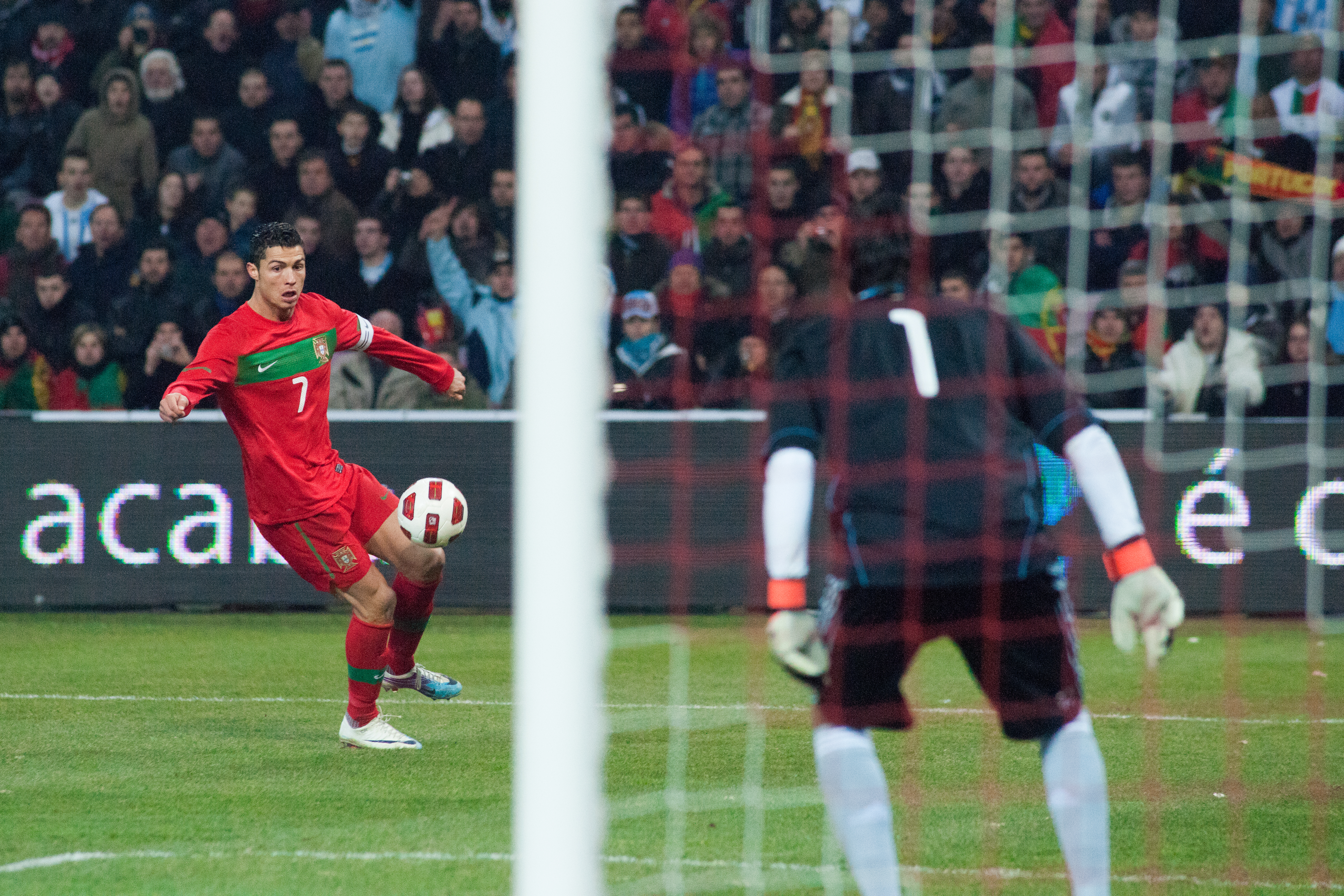 The making of this document was supported by Wikimedia CH. (Submit your project!) For all the files concerned, please see the category Supported by Wikimedia CH. Portugal vs. Argentina, 9th February 2011